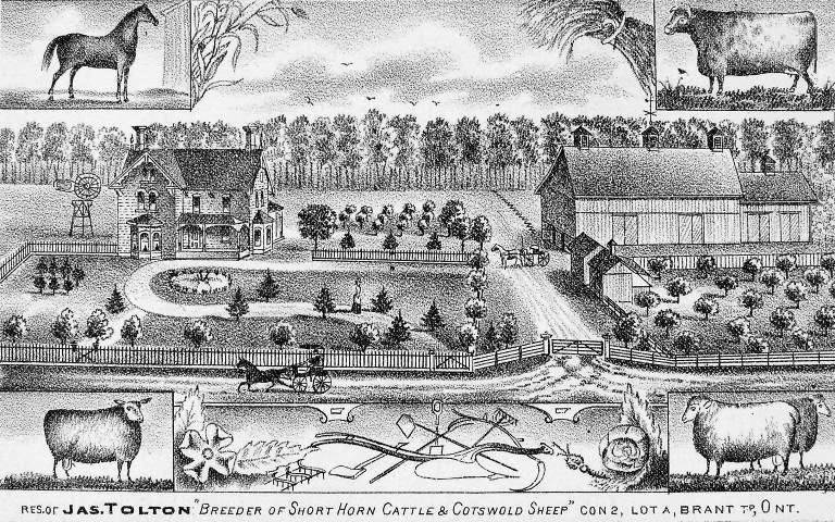 Print (photomechanical), Residence of James Tolton, Brant Township, Ontario, H. Belden Co. (Publisher - éditeur) 1881,Ink on paper - Photolithography - 8.7 x 15 cm